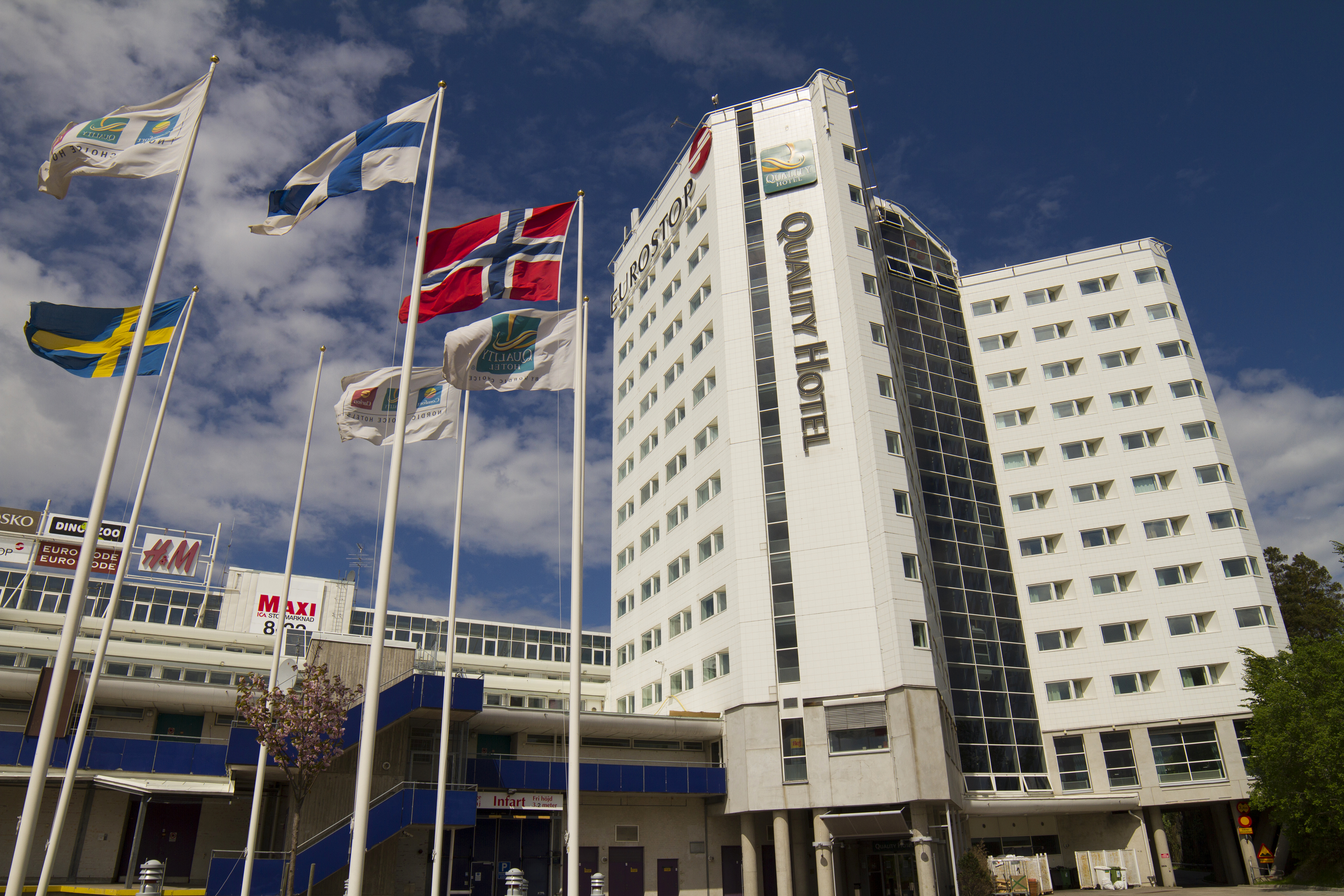 Quality Hotel at Eurostop shopping mall, Arlandastad close to Stockholm Arlanda International Airport